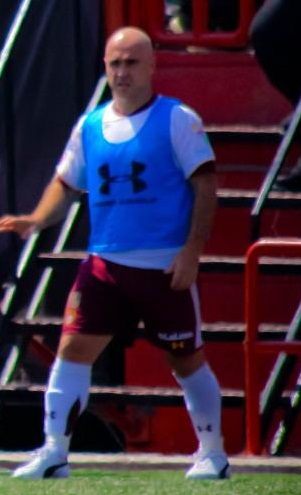 Tecos player Rodrigo Ruiz